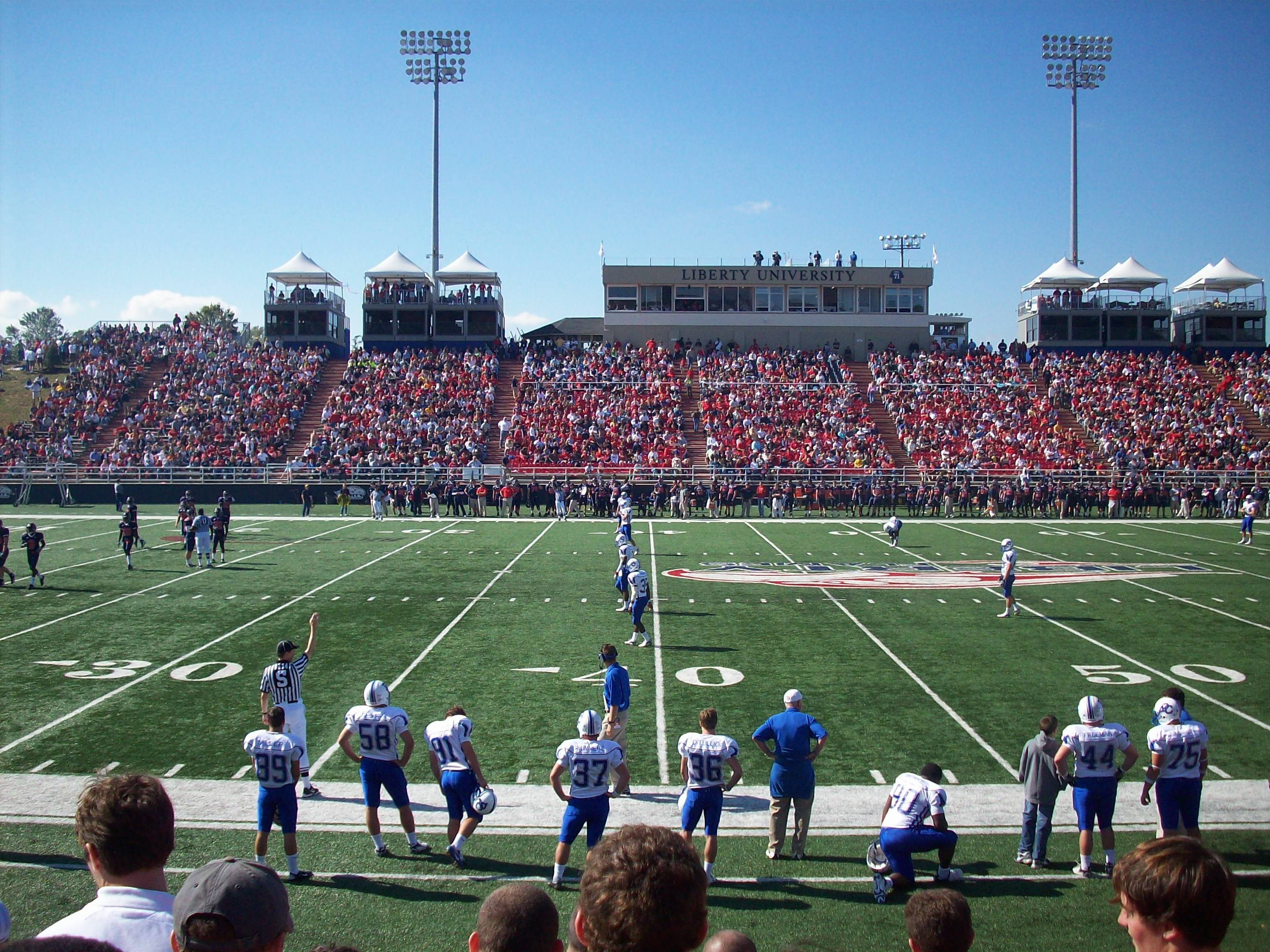 Williams Football Stadium at Liberty University